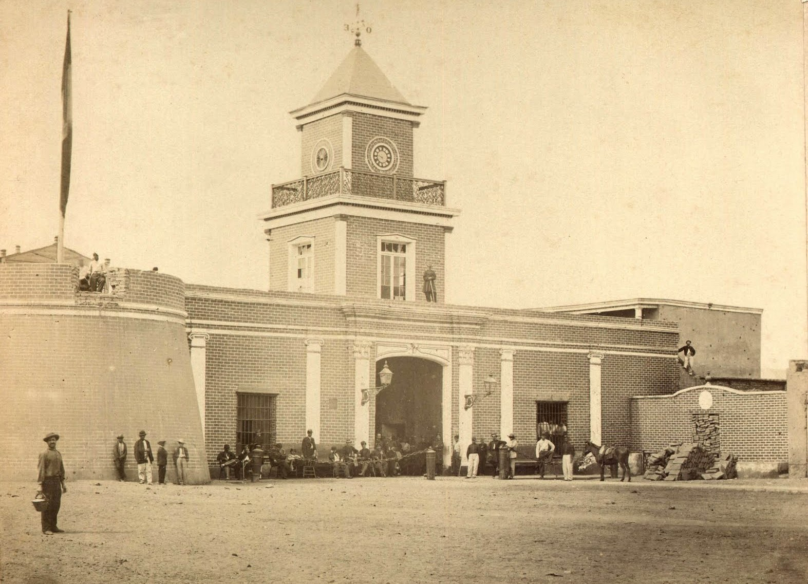 Fort of Saint Catalina, Artillery and Military Police Quarter. Photo from 1870